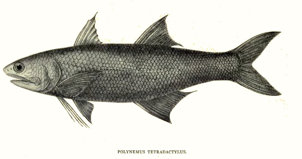 Polynemus tetradactylus = Eleutheronema tetradactylum (Shaw, 1804)